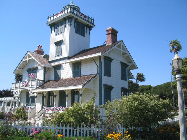 point fermin light house, located in San Pedro. I took the photo in July 2005. It's open to all.